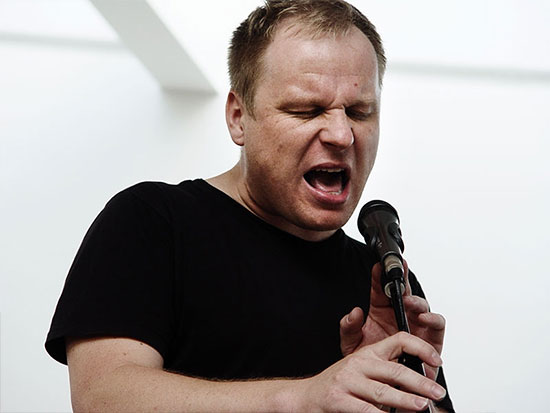 Grzegorz Karnas at Aarhus Jazz Festival 2014